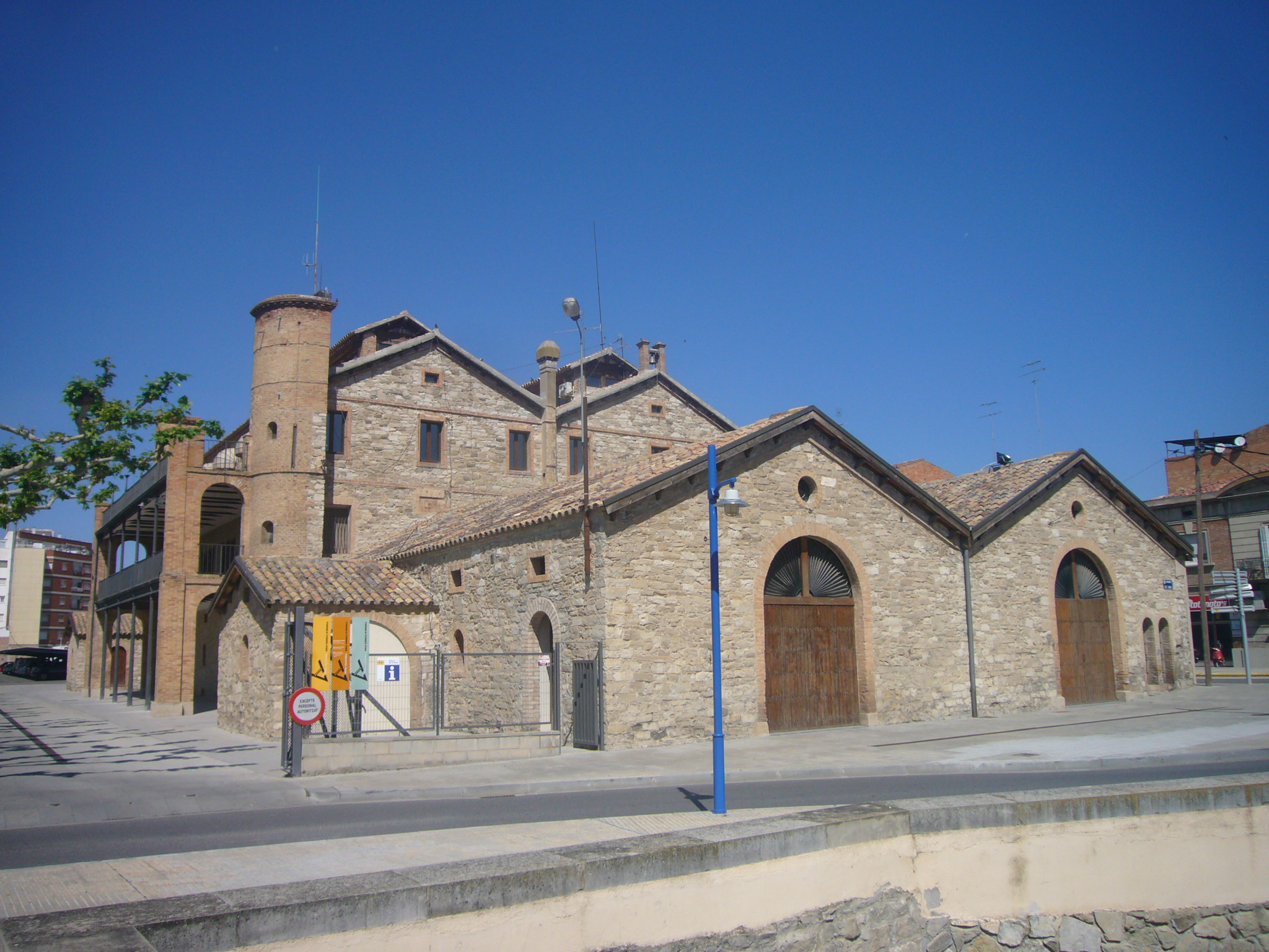 Casa del Canal d'Urgell (Mollerussa)